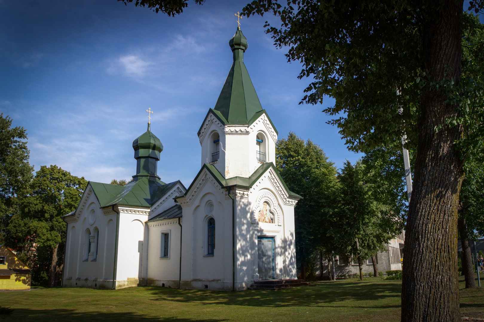 Orthodox church, Tytuvėnai, Lithuania